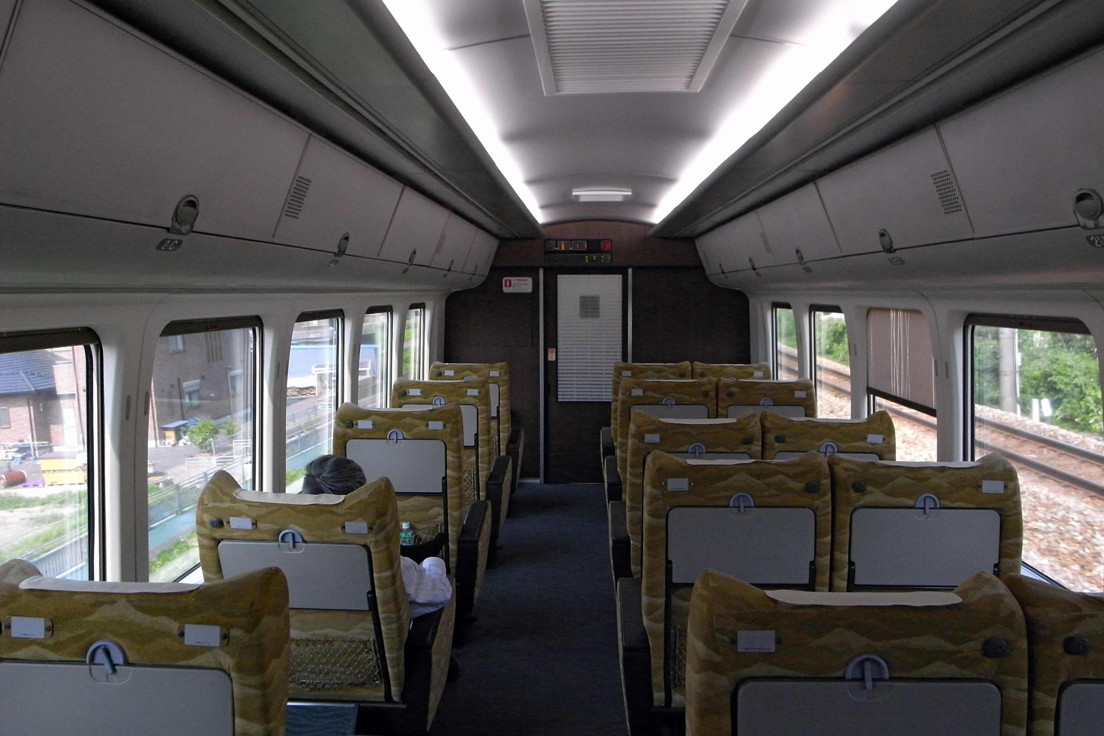 Chizu Express HOT 7000 series of Japanese Chizu Express Company